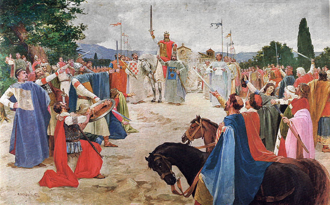 The crowning of the Croatian king Tomislav.